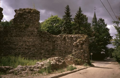 valmiera castle ruins